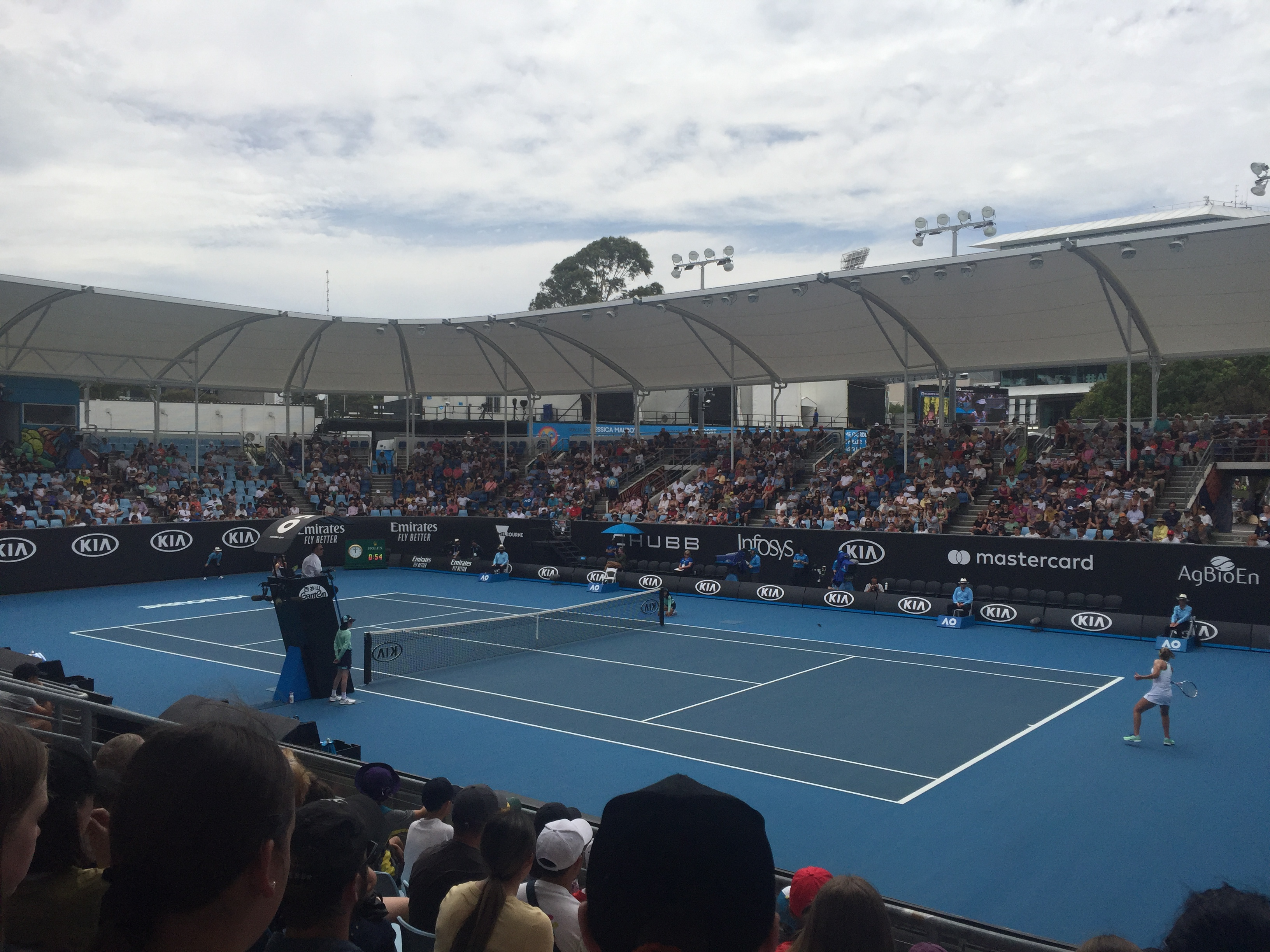 View of the Second Round Women’s Singles match between Sofia Kenin and Ann Li at the 2020 Australian Open, Melbourne Park